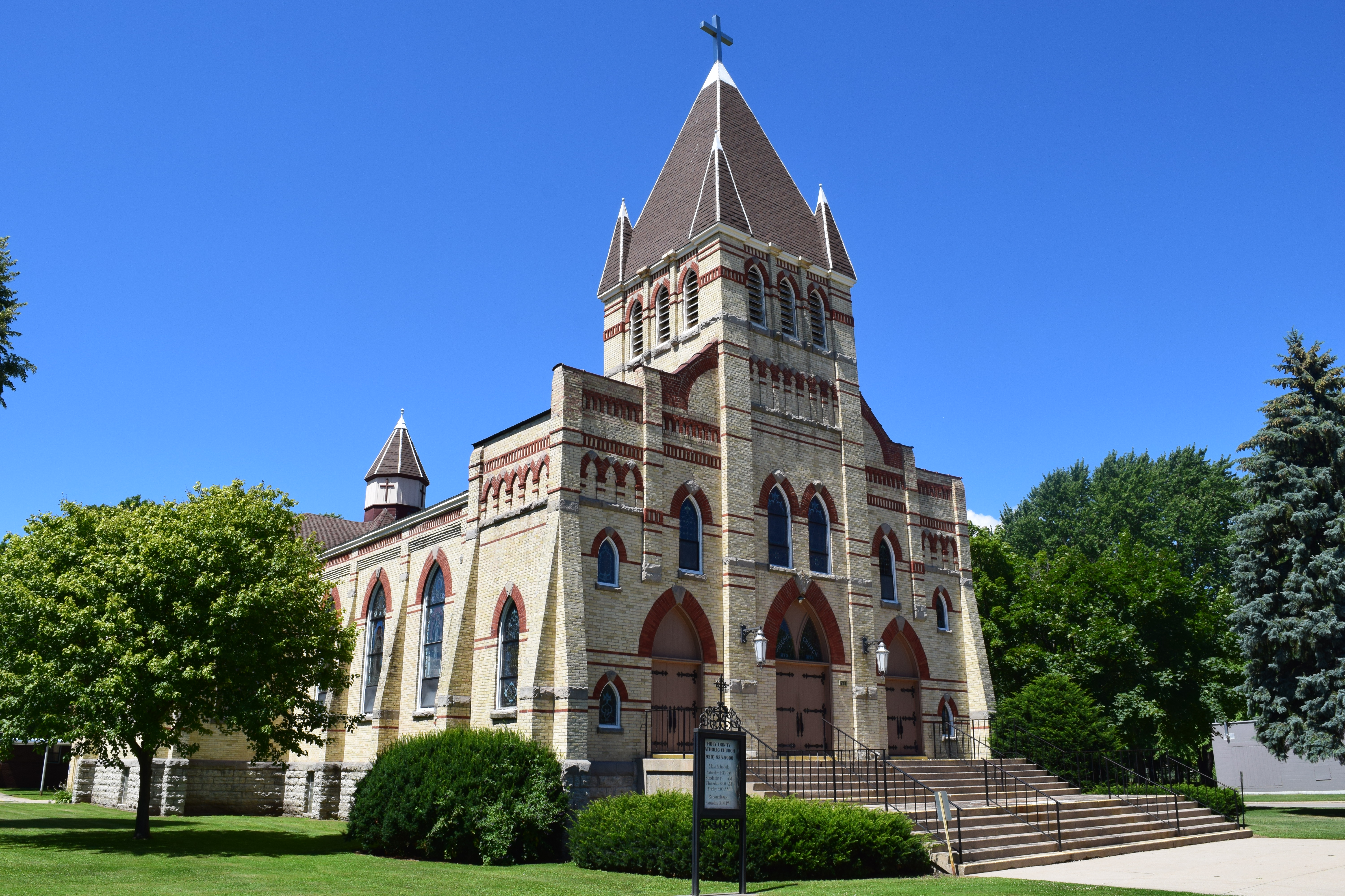 St. Joseph's Catholic Church, located at 705 Park Ave. in Oconto, Wisconsin. The church is listed on the National Register of Historic Places along with St. Peter's Catholic Church (see St. Peter's and St. Joseph's Catholic Churches).